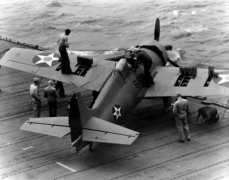 Grumman F4F-4 "Wildcat" fighter, of Fighting Squadron Six (VF-6) has its six .50 caliber machine guns tested on the flight deck of USS Enterprise (CV-6), 10 April 1942. Note open gun bays in the plane's wings and markings below the cockpit ("6F9" with no dashes between letters and numerals).